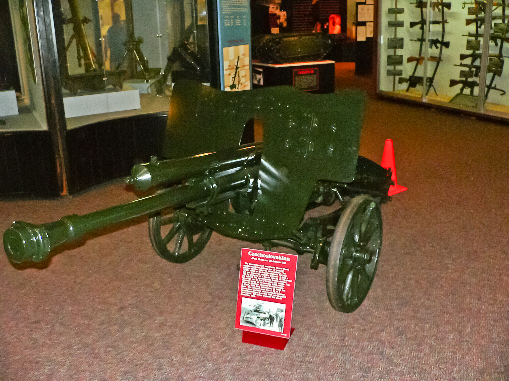 At the United States Army Ordnance Museum (Aberdeen Proving Ground, MD).